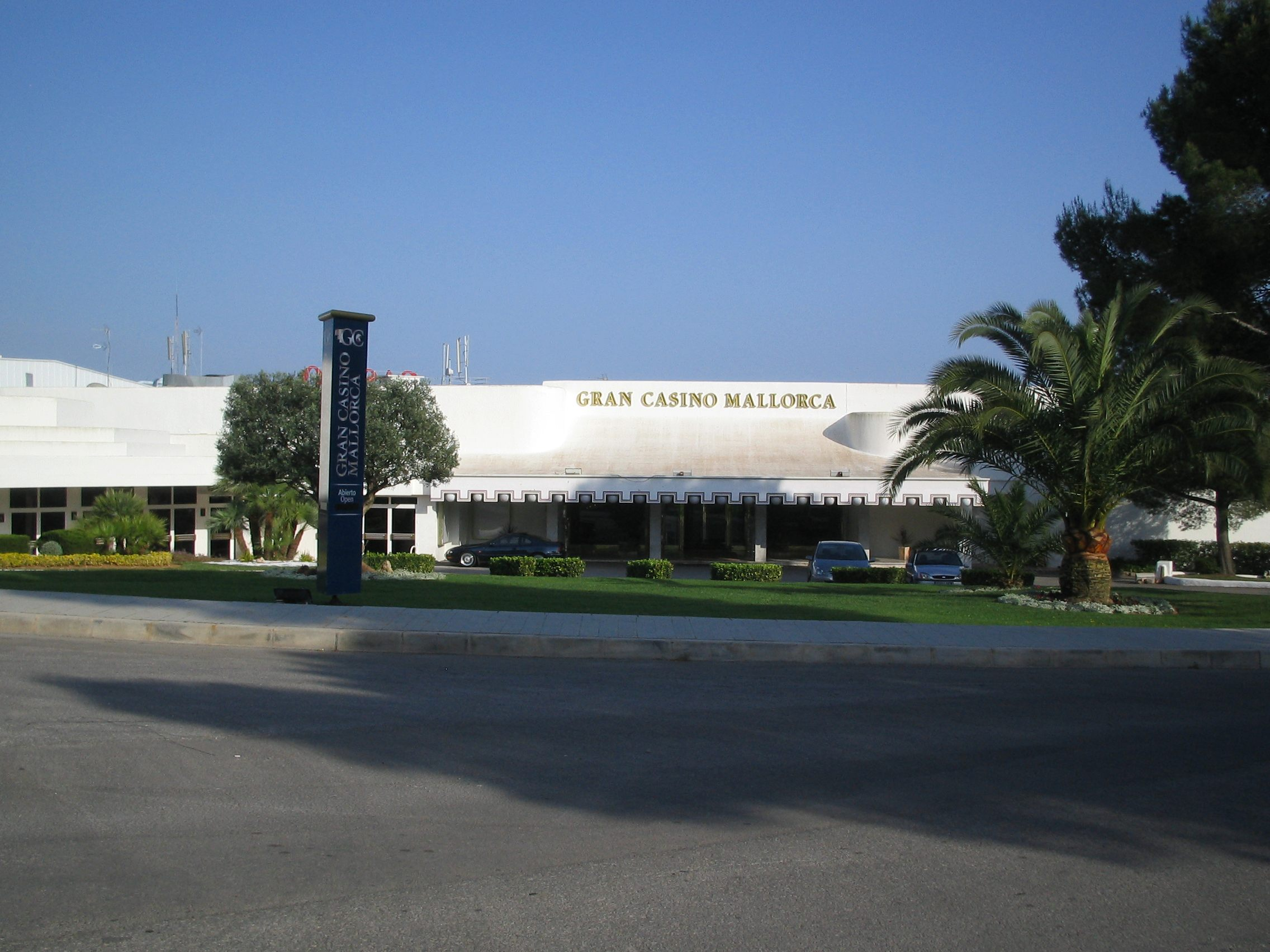 The majorcan casino.